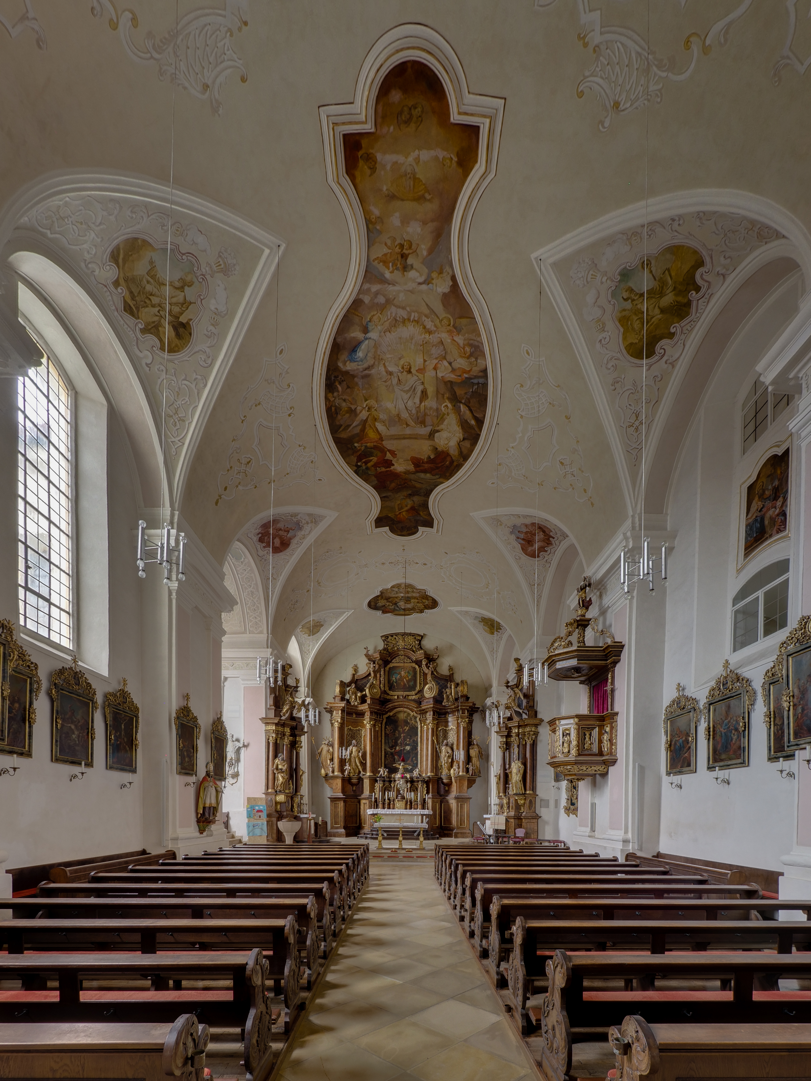 Interior of the catholic parish church St. Bonifaz in Weißenohe